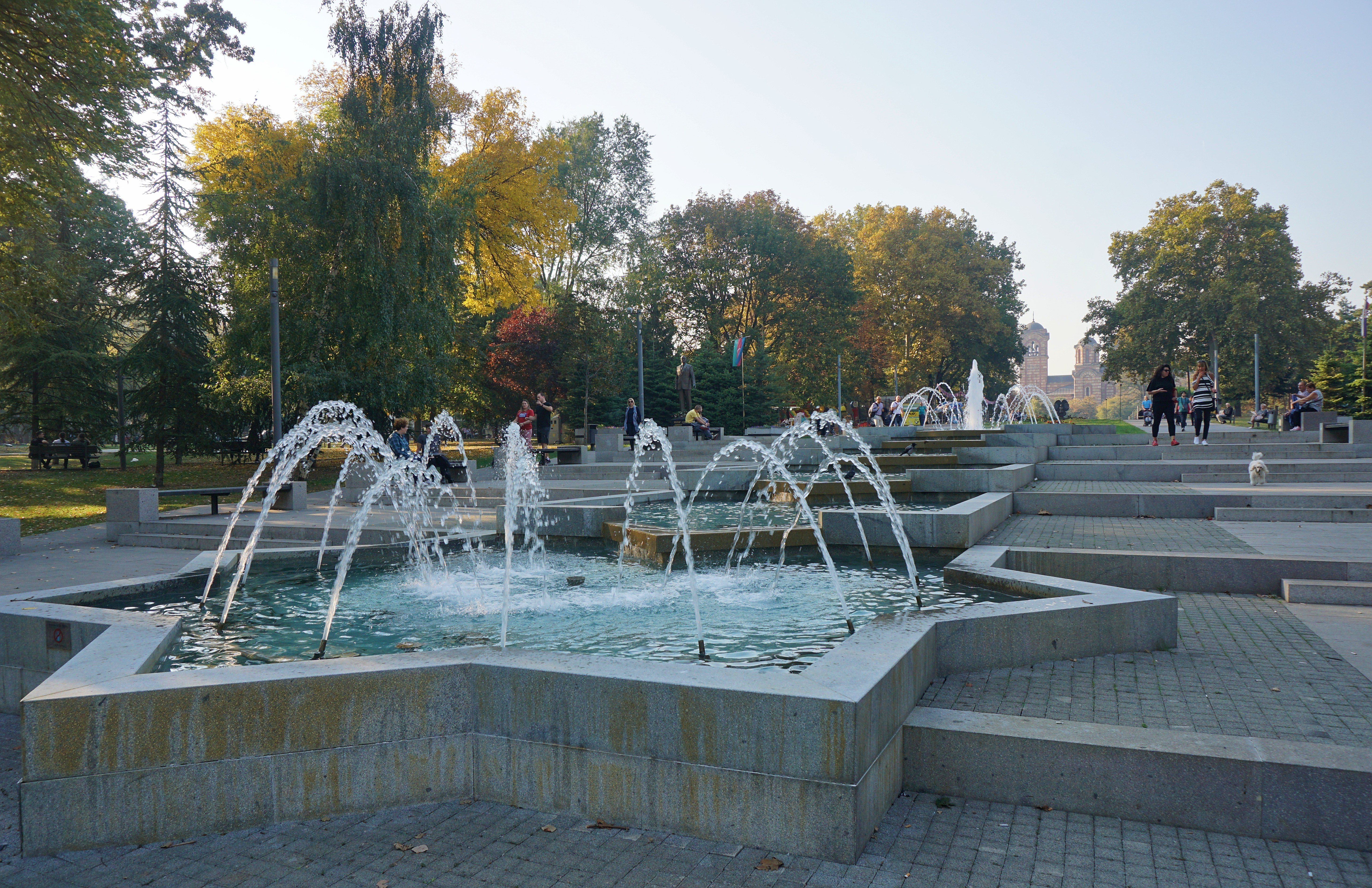 Tašmajdan Park